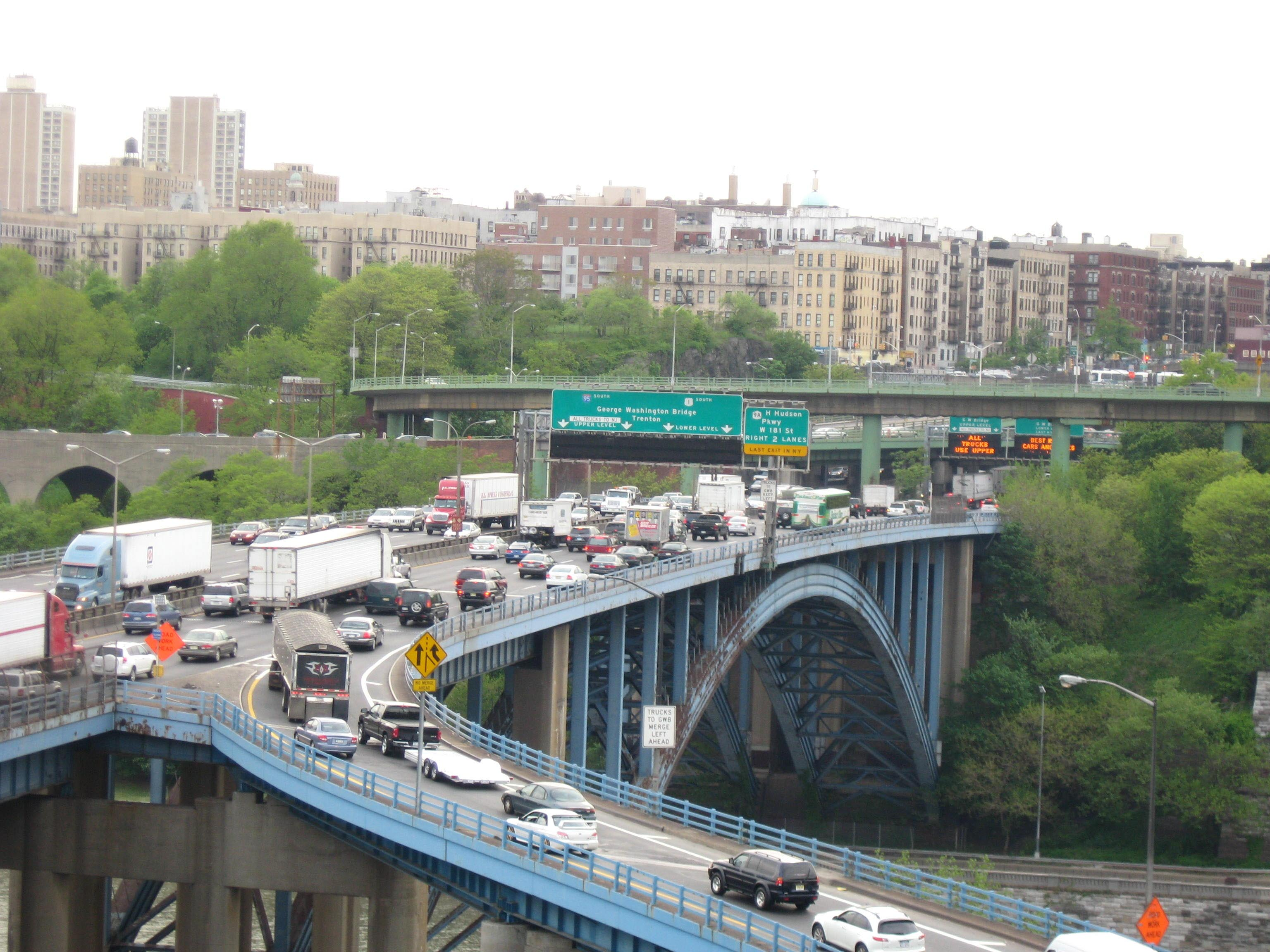 Looking southwest at Alexander Hamilton Bridge on a cloudy May 14 afternoon from Washington Bridge ramp.